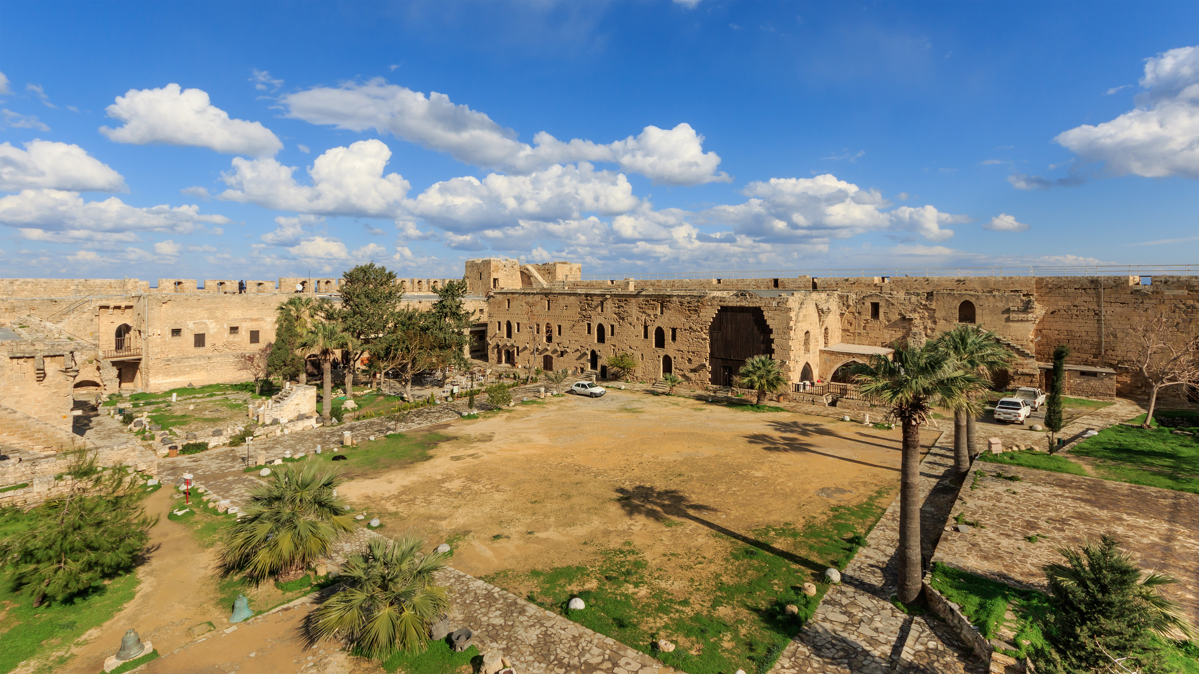 The yard inside the castle in Kyrenia, Cyprus